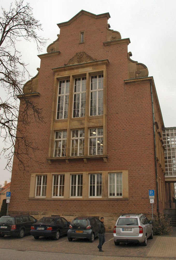 Rathaus Nordhorn Seitenansicht